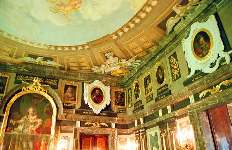 Royal Caslte in Warsaw